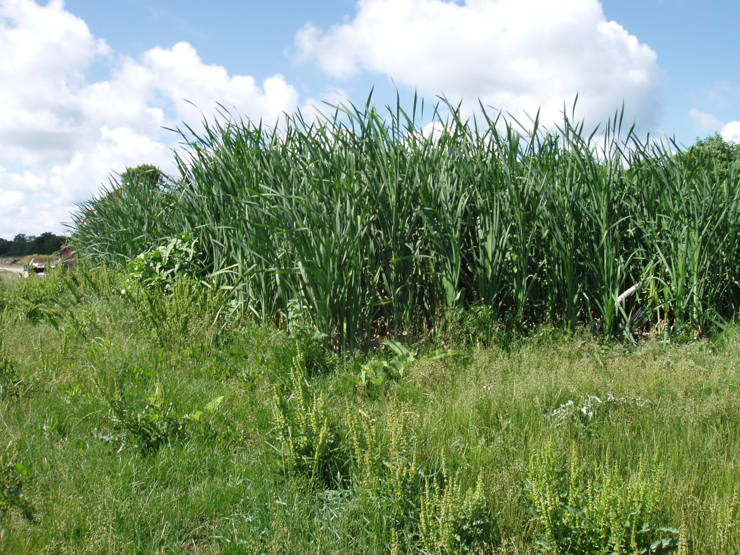 author - lloyd rozema I took this picture myself